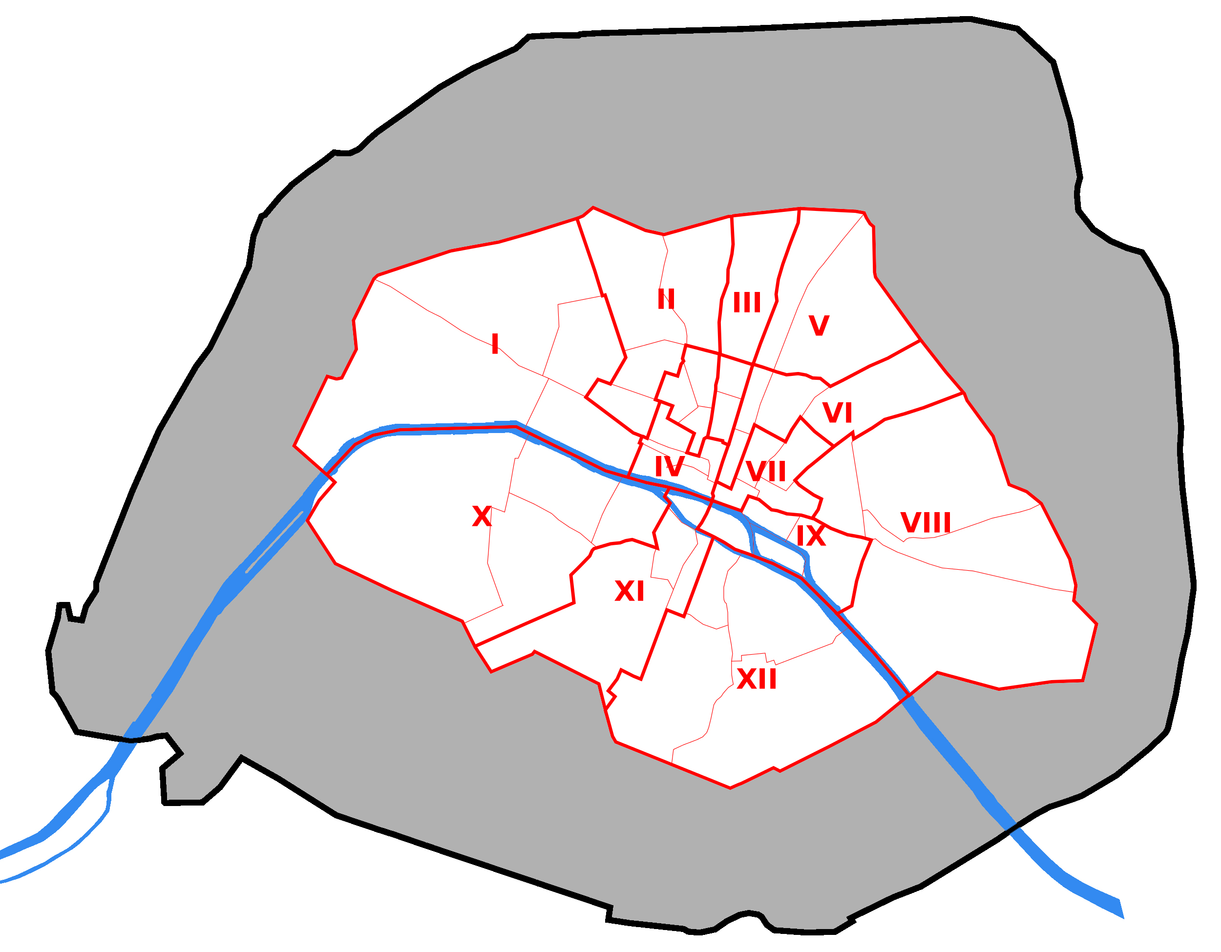 Schematic drawing of the old arrondissements of Paris. The grey zone corresponds to the current limits of Paris. Note: This map is derived from multiple sources: the limits of the arrondissements are approximate and should should not be used as exact references.